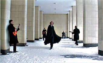 Picture taken by me of the band "Frogstone" in Frederiksberg Rådhus' backyard in 2004 while making a video